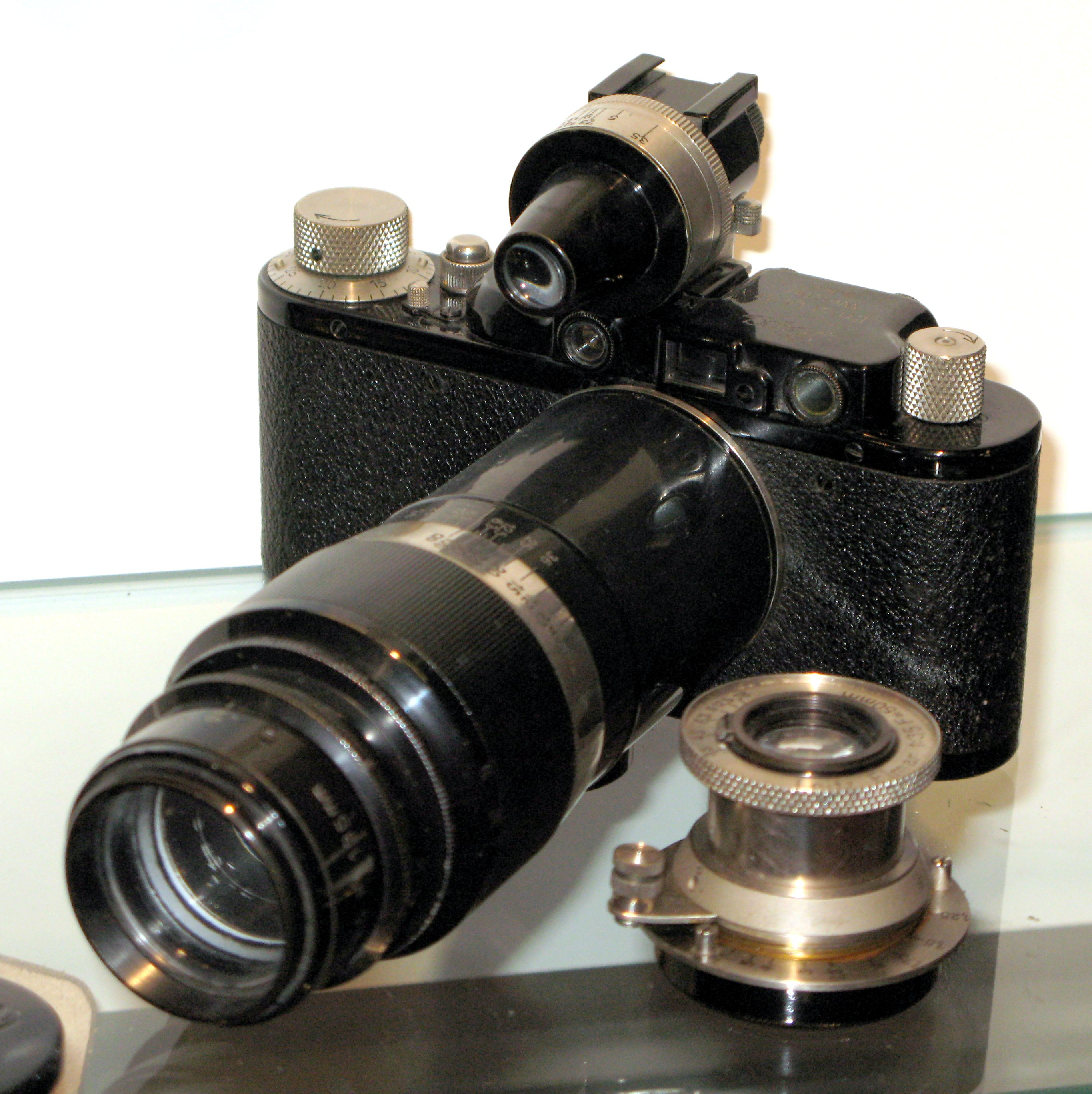 Leica II on display at Vevey photography museum